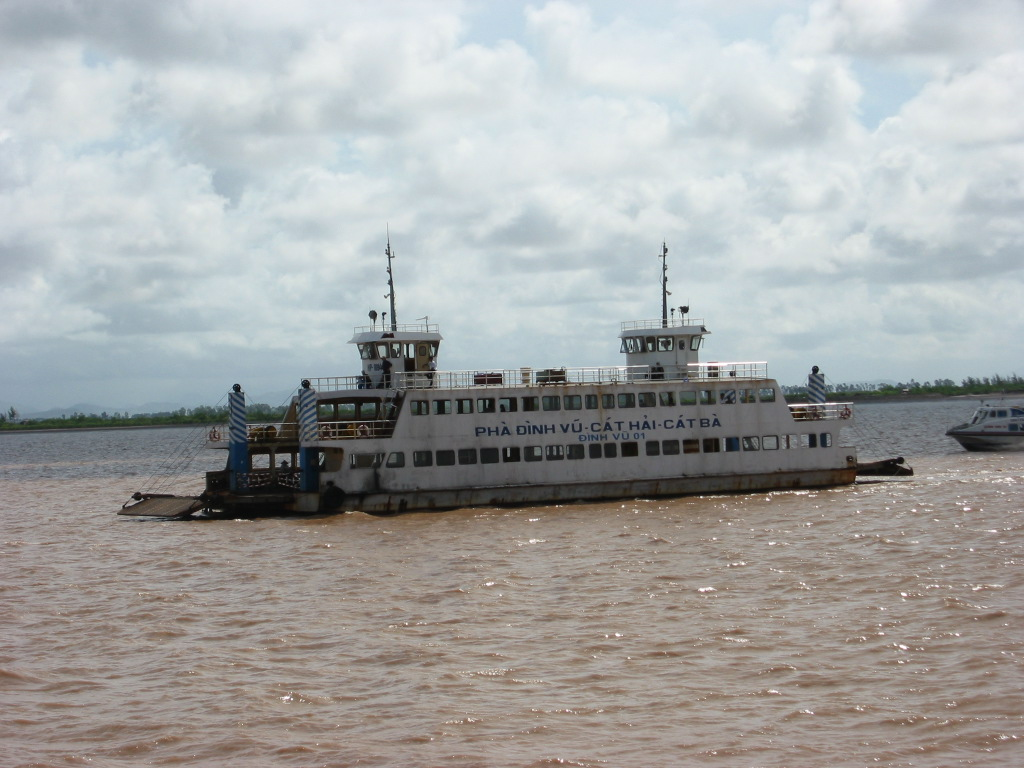 A ferry from Dinh Vu, Hai Phong to Cat Ba, Hai Phong, Vietnam.